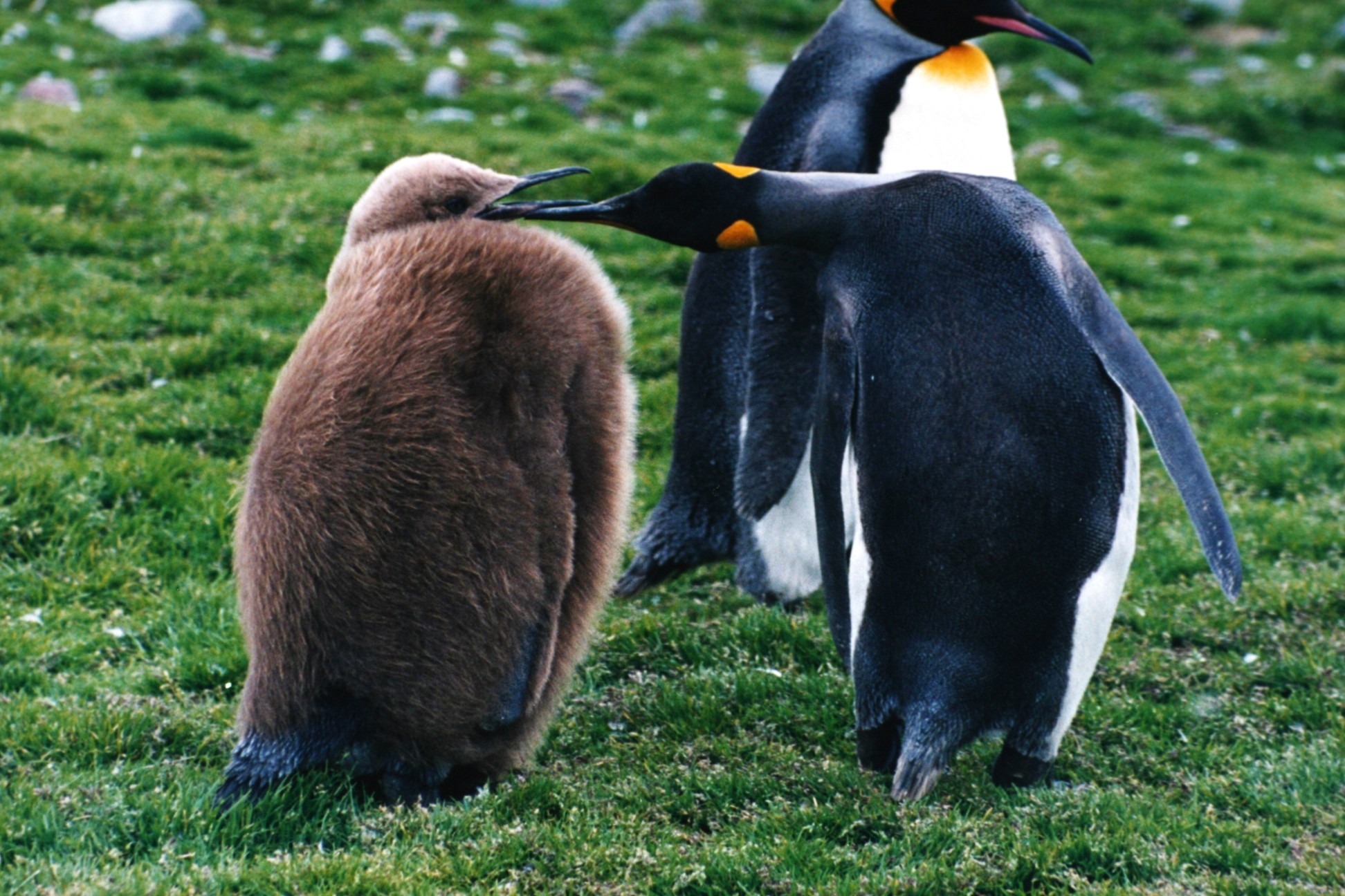 Photograped by Brocken Inaglory in January, 1999 King Penguins a parent and a chick at South Georgia Island.